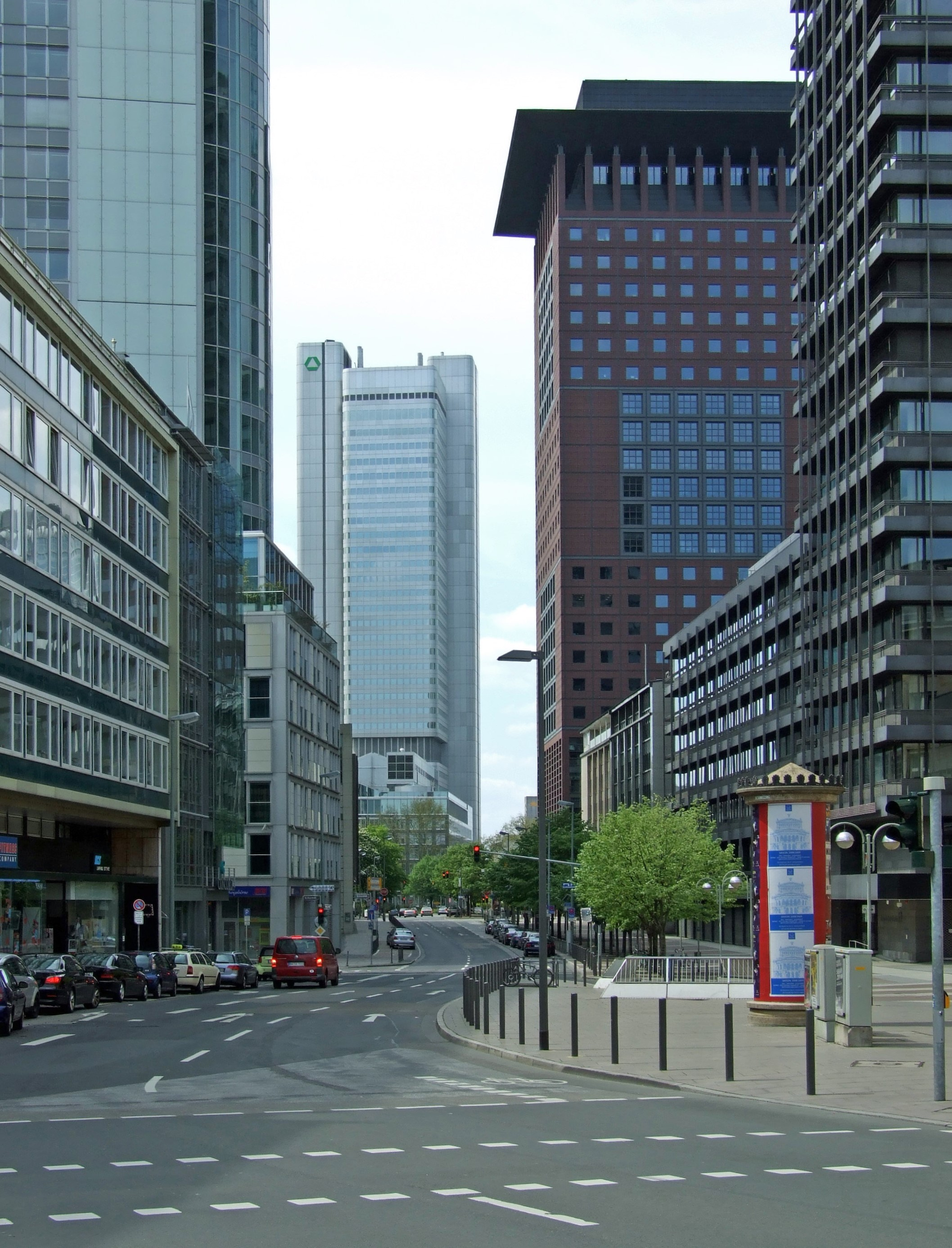 Dresdner Bank, Silver Tower, Taunusstrasse in Frankfurt am Main Bahnhofsviertel, view from Rossmarkt through Grosse Gallusstrasse and Taunustor